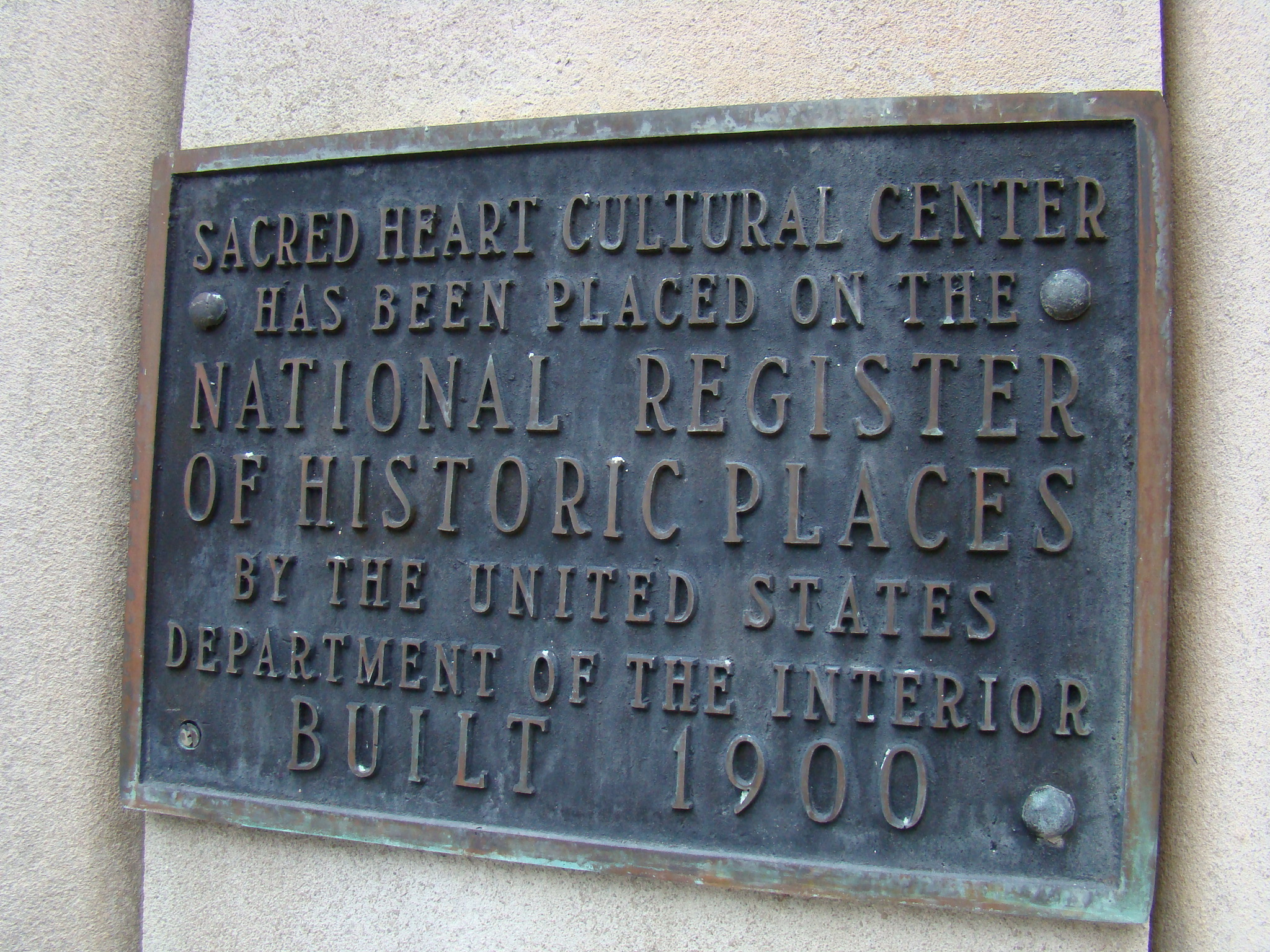 Sacred Heart Cultural Center, former Catholic church - National Register of Historic Places plaque. (Augusta, Georgia, USA)